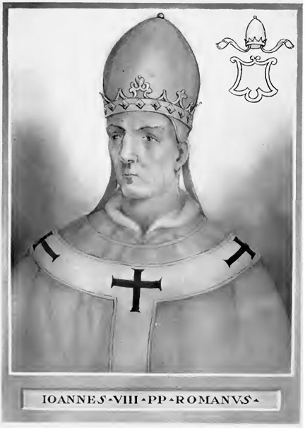 This illustration is from The Lives and Times of the Popes by Chevalier Artaud de Montor, New York: The Catholic Publication Society of America, 1911. It was originally published in 1842.